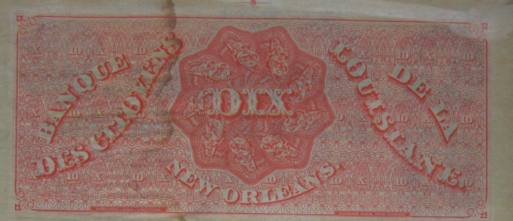 "Dixie" note. Photograph of original in Antique shop, Royal Street, French Quarter, New Orleans. 10 dollar banknote, Citizens Bank of Louisiana, New Orleans. French inscription reads "DIX"; such notes are one suggested origin for the term "Dixie" to refer to the US South.